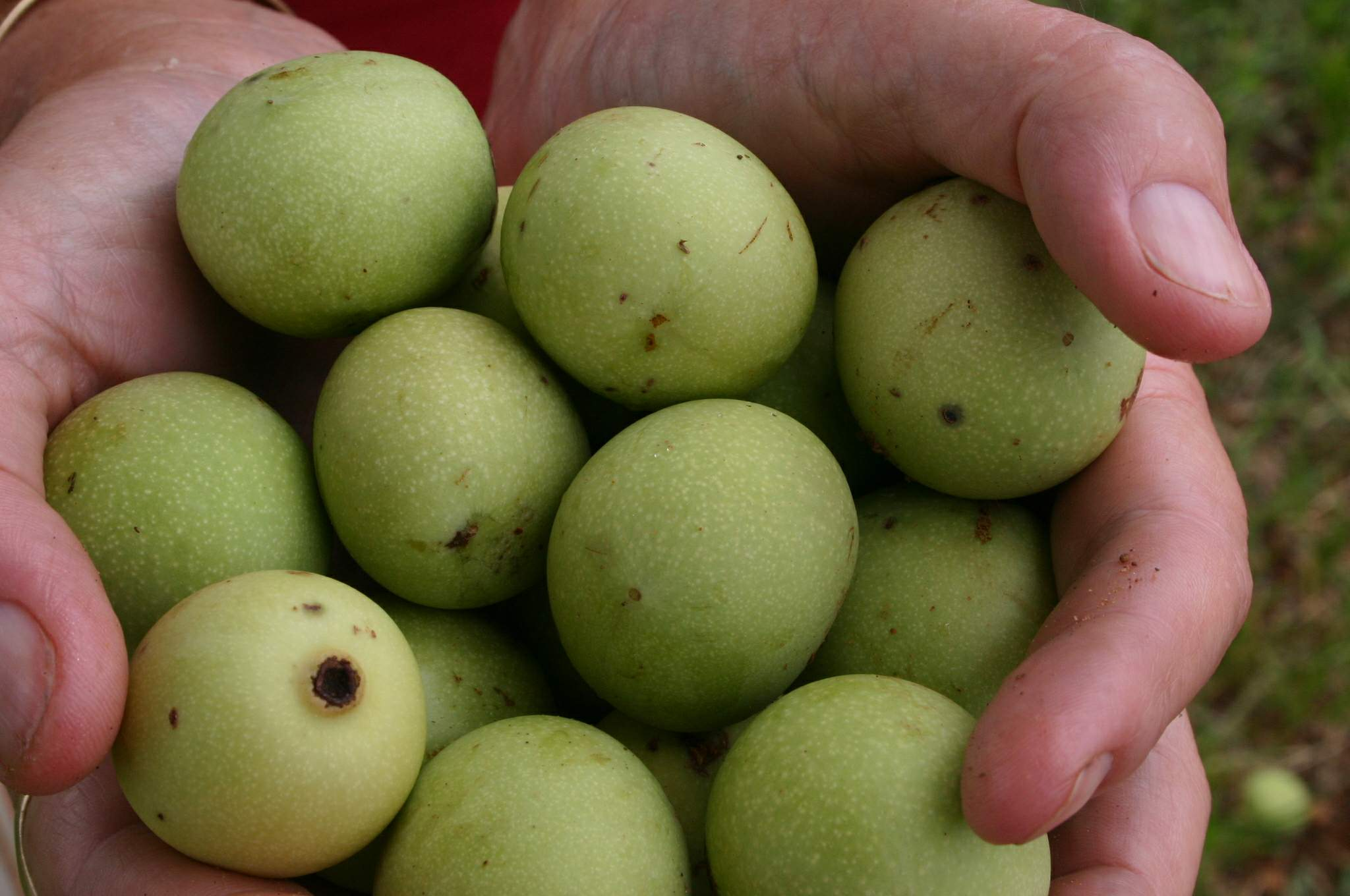 Green marula fruits held in cupped hands. Found below tree on road between Nylstroom and Potgietersrust, Transvaal, South Africa